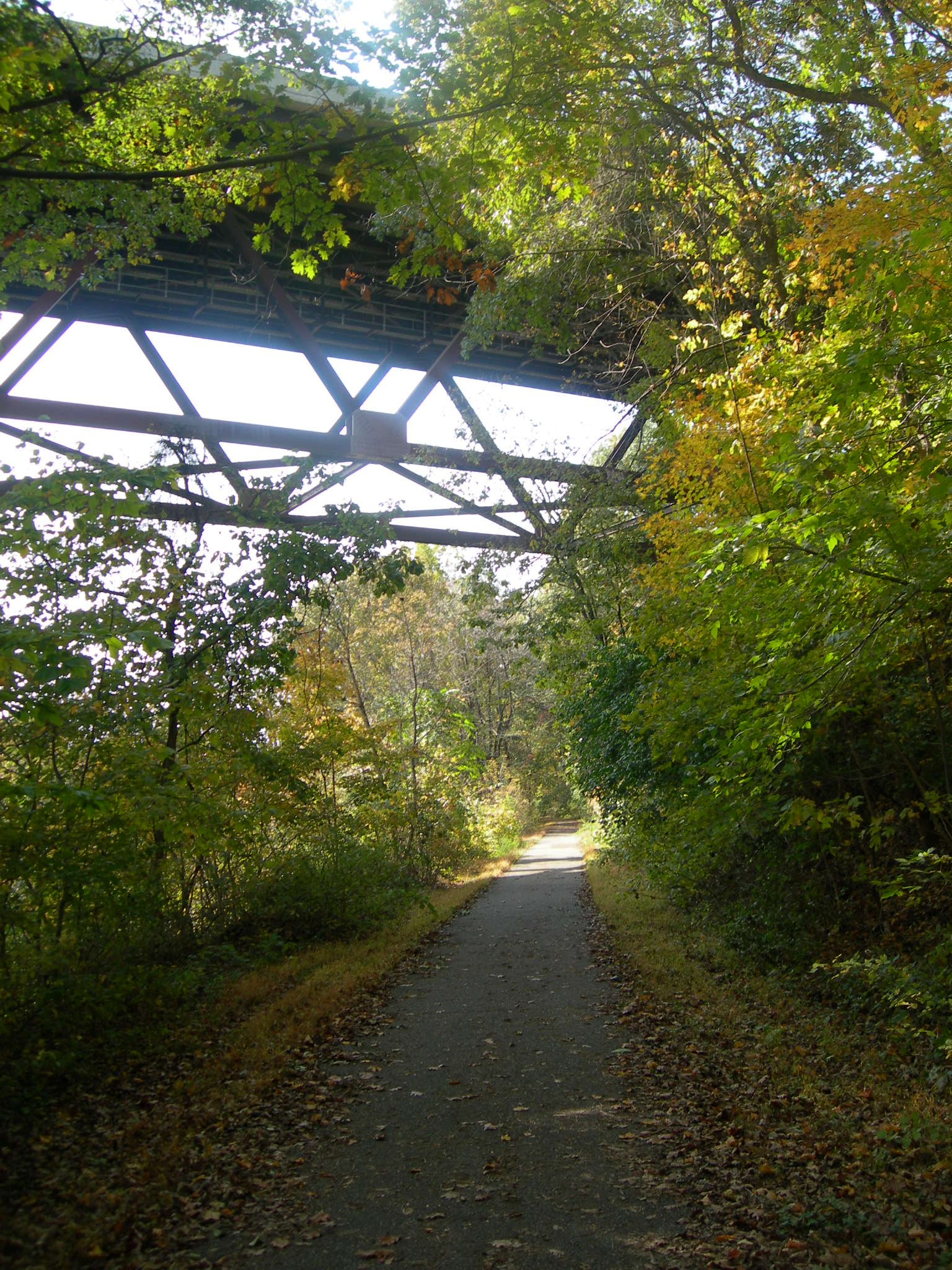 Palmer Bike Path underneath Rt. 33 Lehigh River bridge